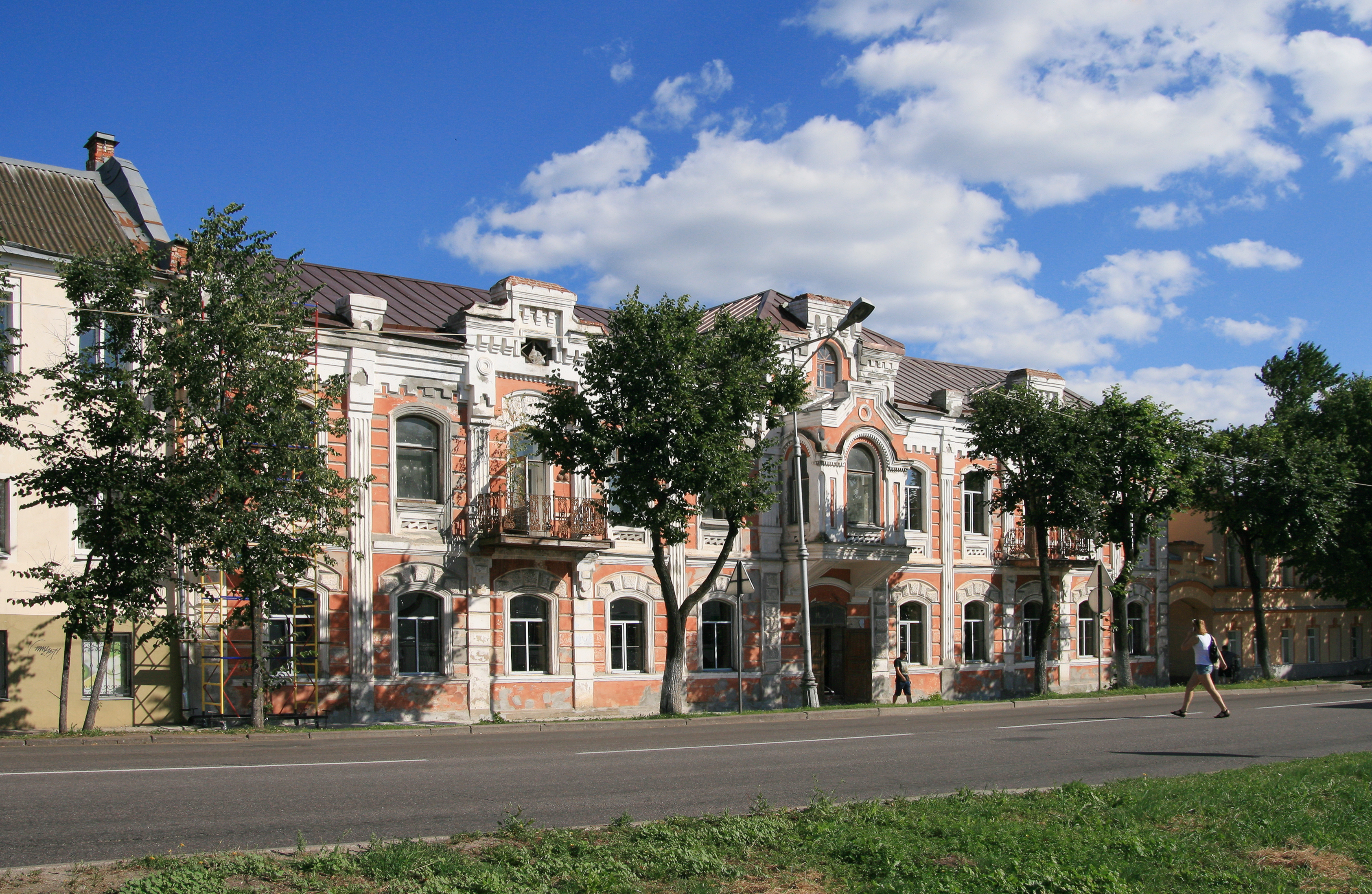 Smetanina housem, B. Moscovskaya street 10, Veliky Novgorod